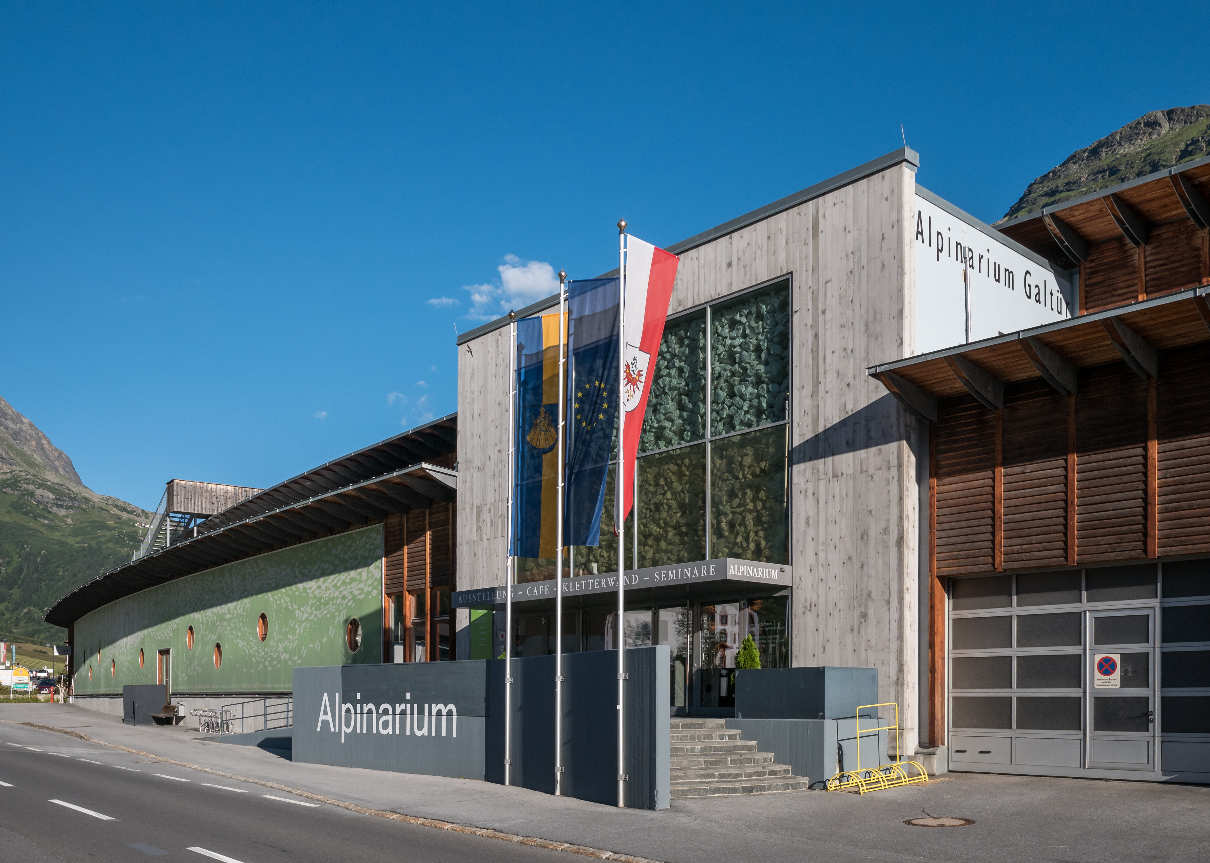 Alpinarium in Galtür. Paznaun, Tyrol, Austria This media shows the remarkable cultural object in the Austrian state of Tyrol listed by the Tyrolean Art Cadastre with the ID 22492. (on tirisMaps, pdf, more images on Commons, Wikidata)